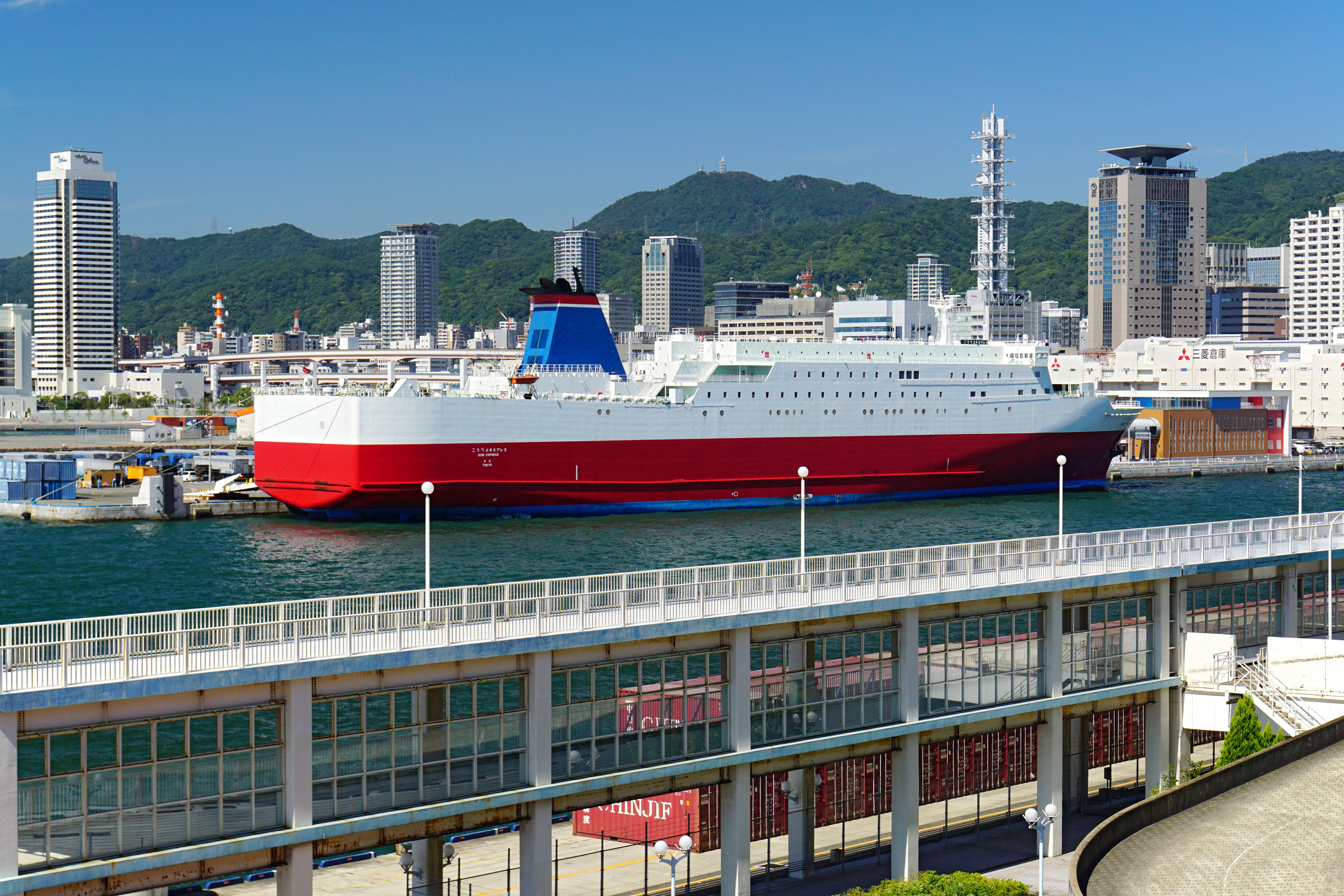 Kobe Port view from the Kobe Bridge in Kobe Hyogo prefecture, Japan.